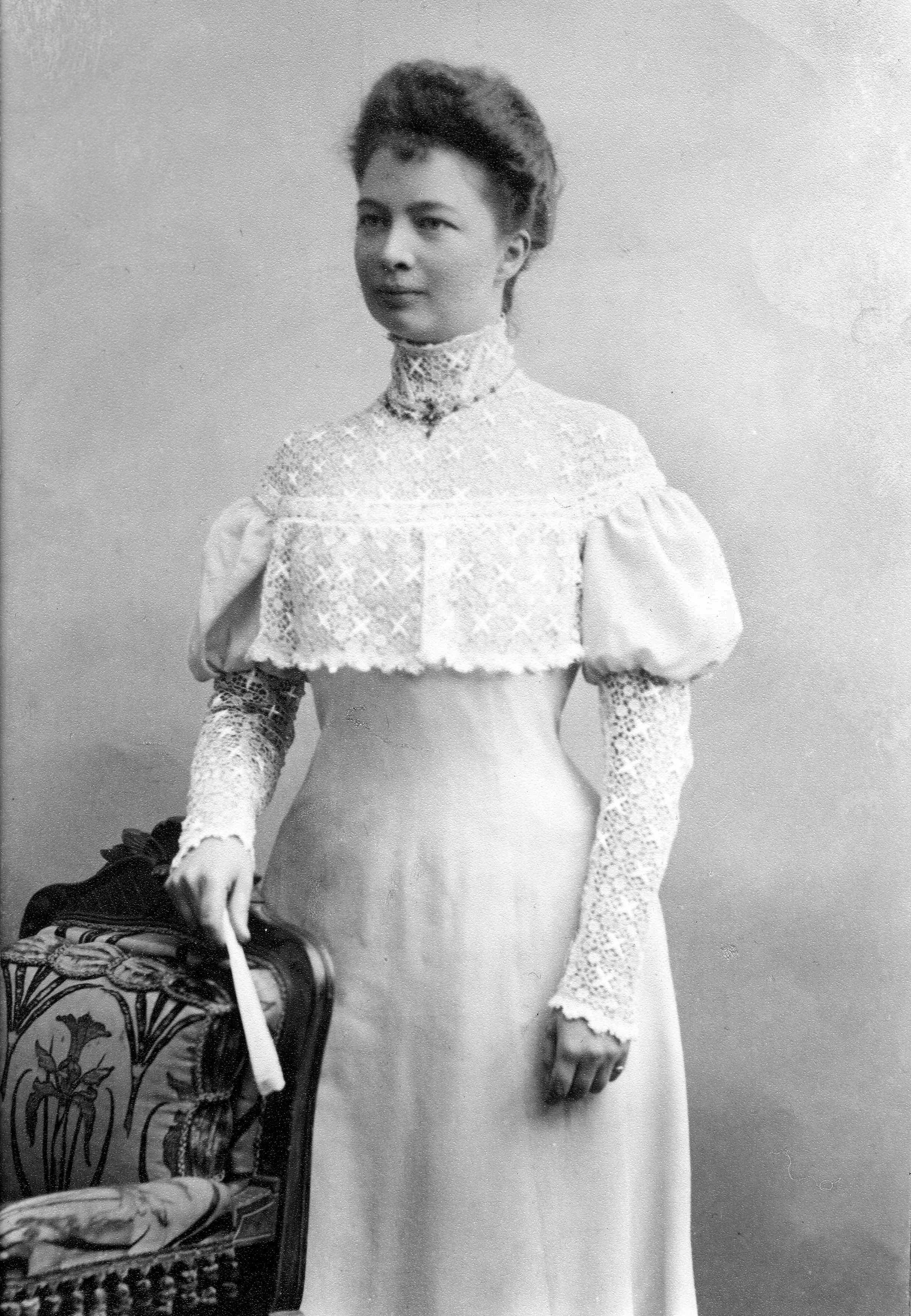 Photograph of the early Norwegian architect Hjørdis Grøntoft